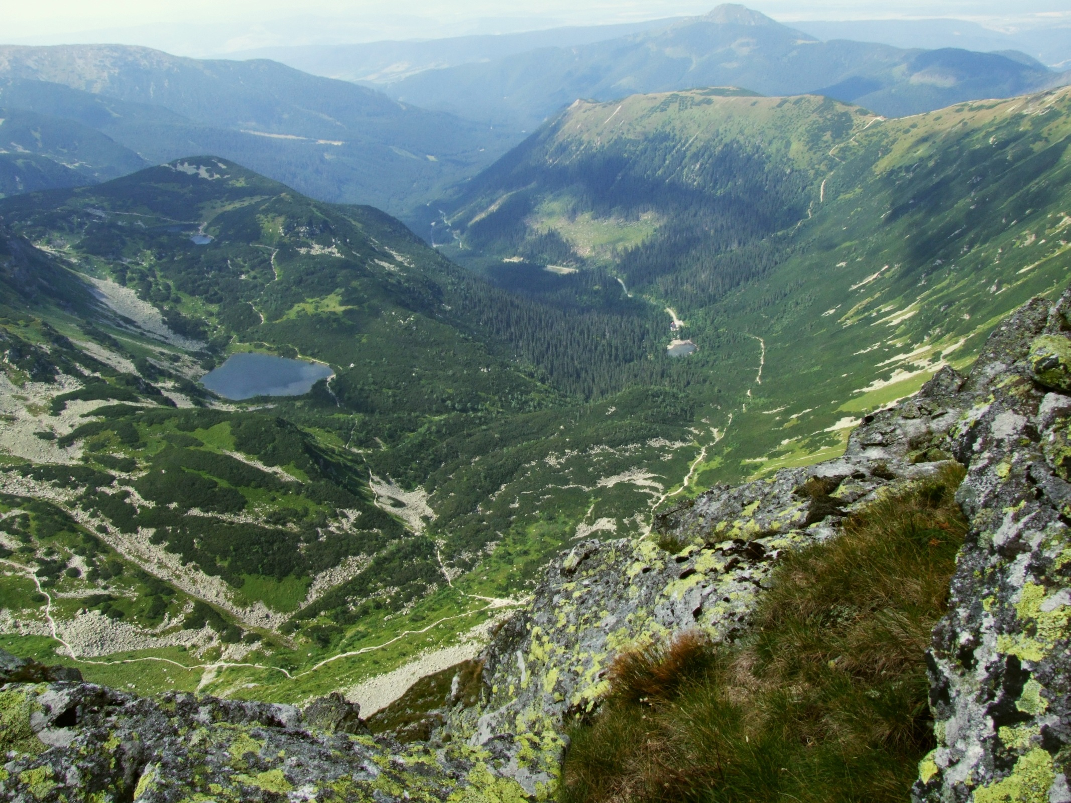 Roháčska Dolina (West Tatra Mountains), pl. Dolina Rohacka